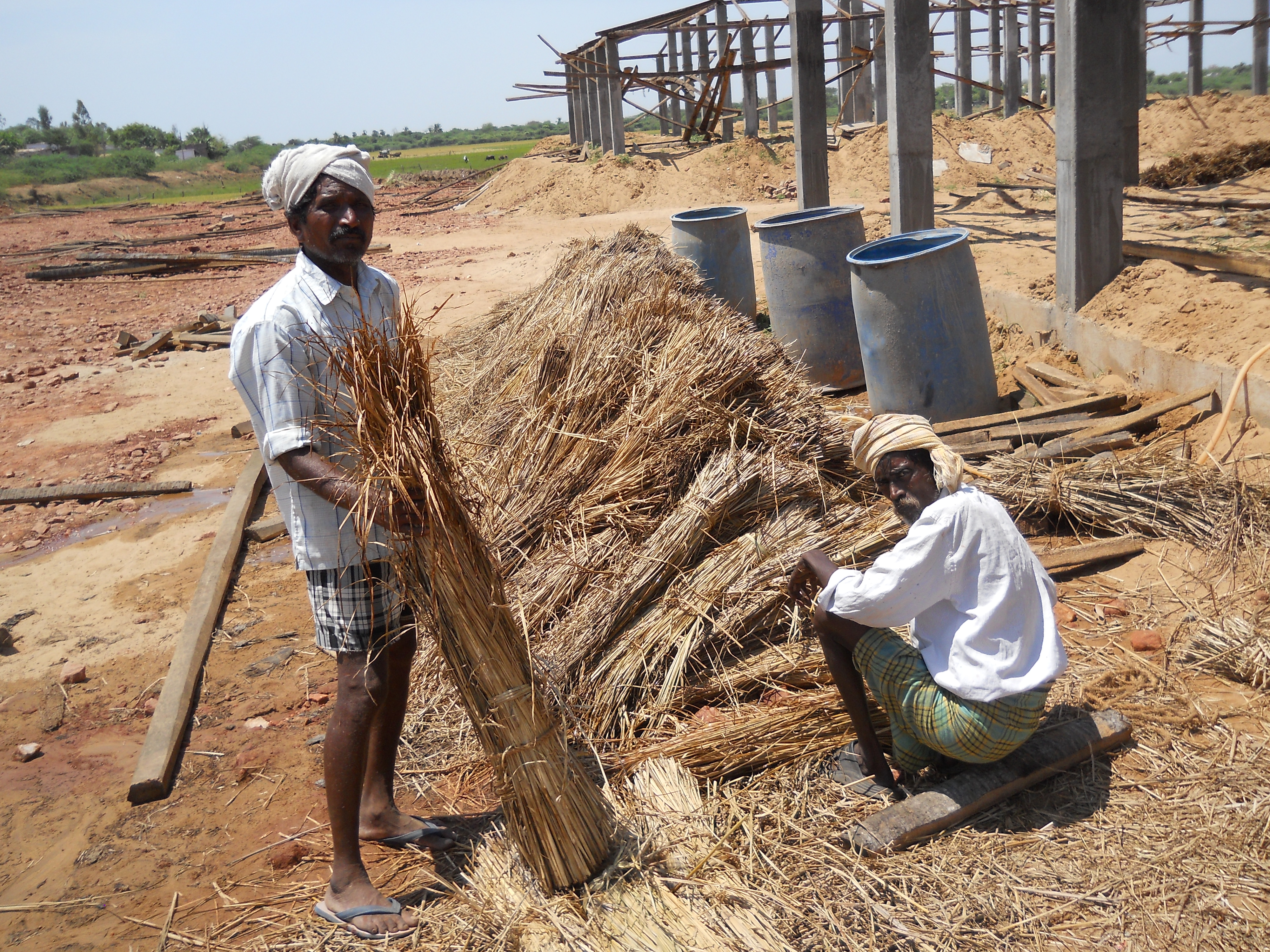 Thatcher